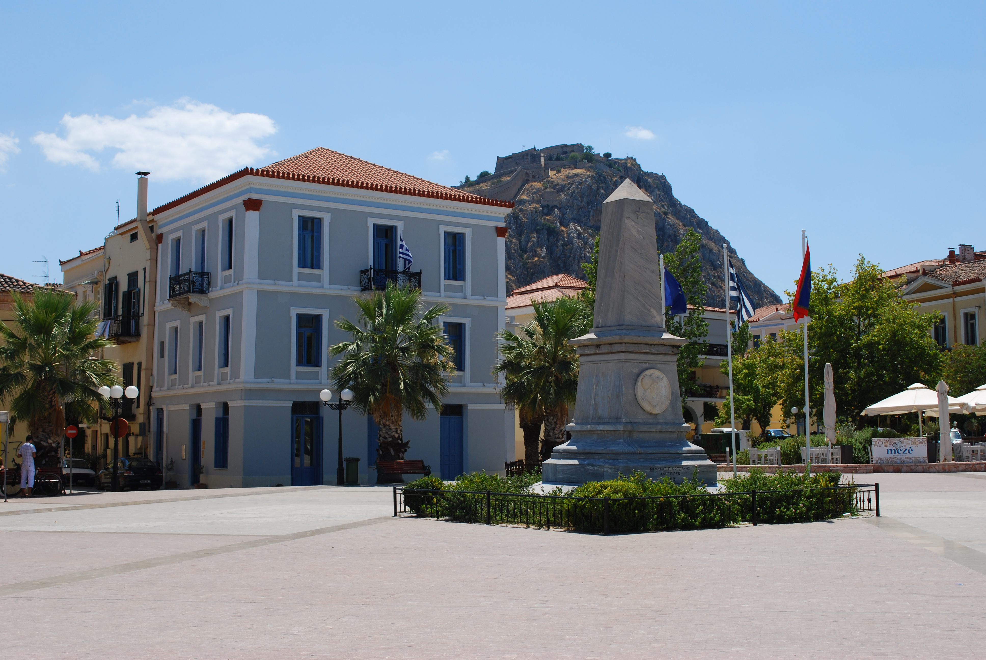 Nafplion : Filellinon Square.